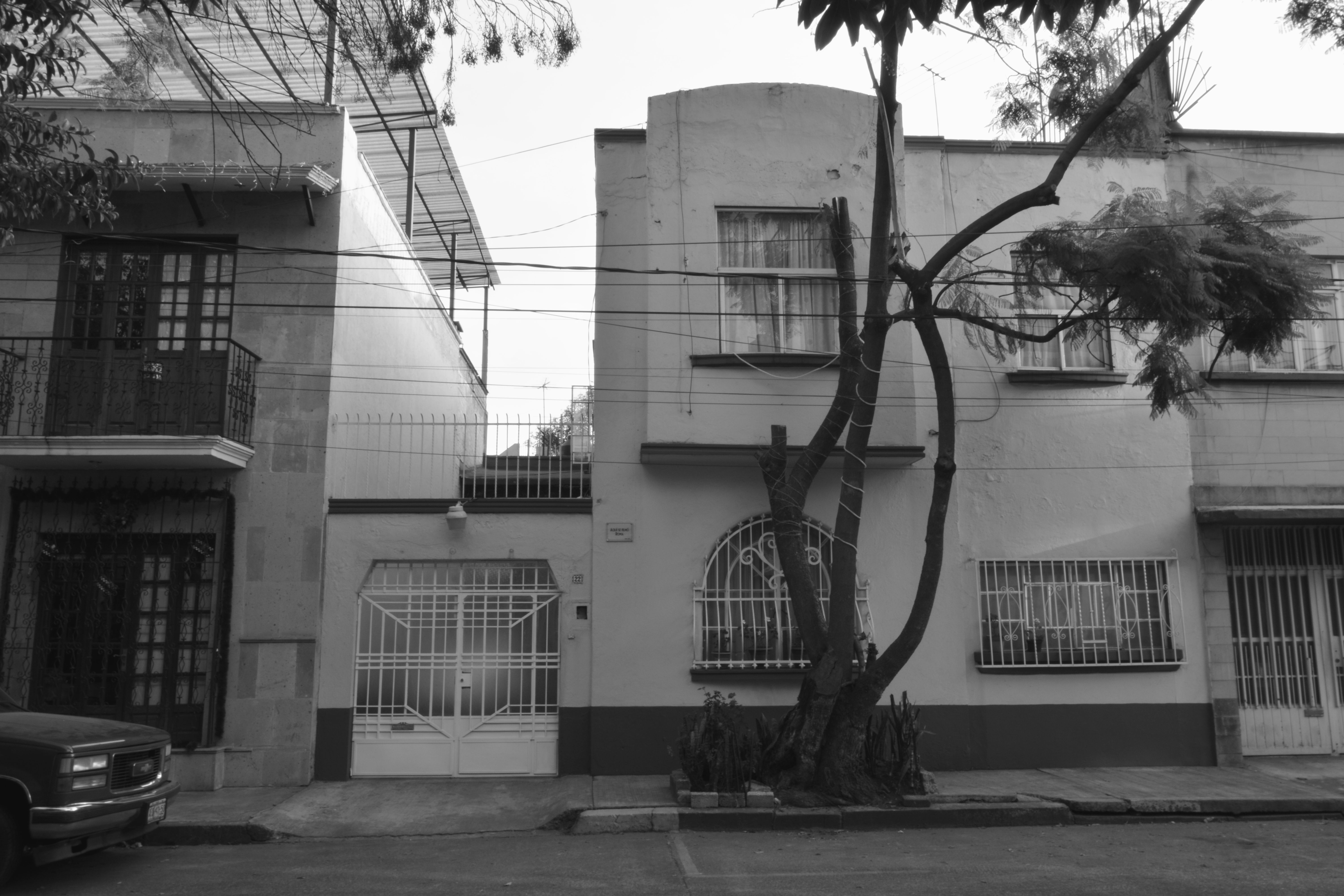 Alfonso Cuaron's "Roma" filming locations in Mexico City. BW version.